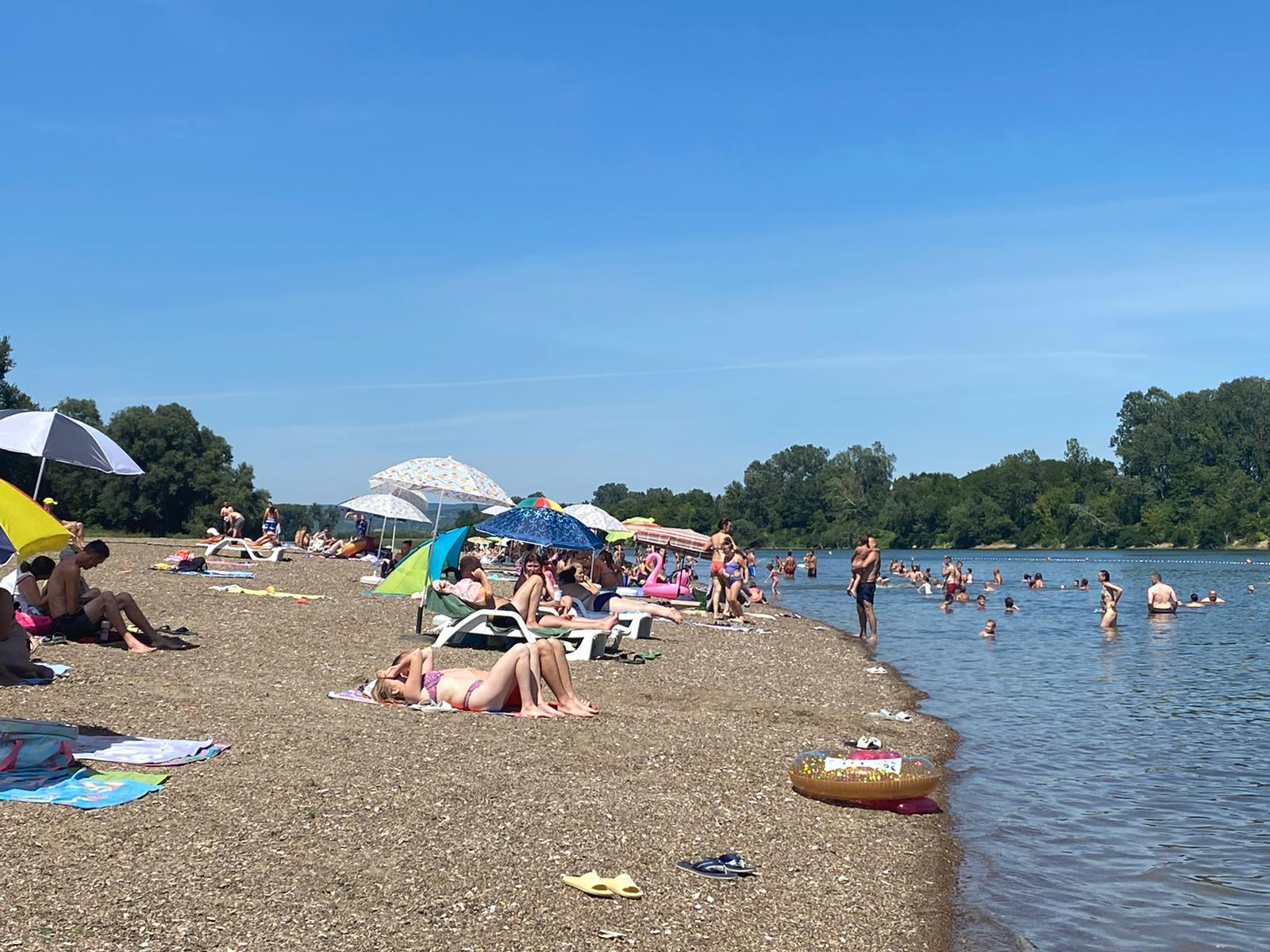 Poloj beach